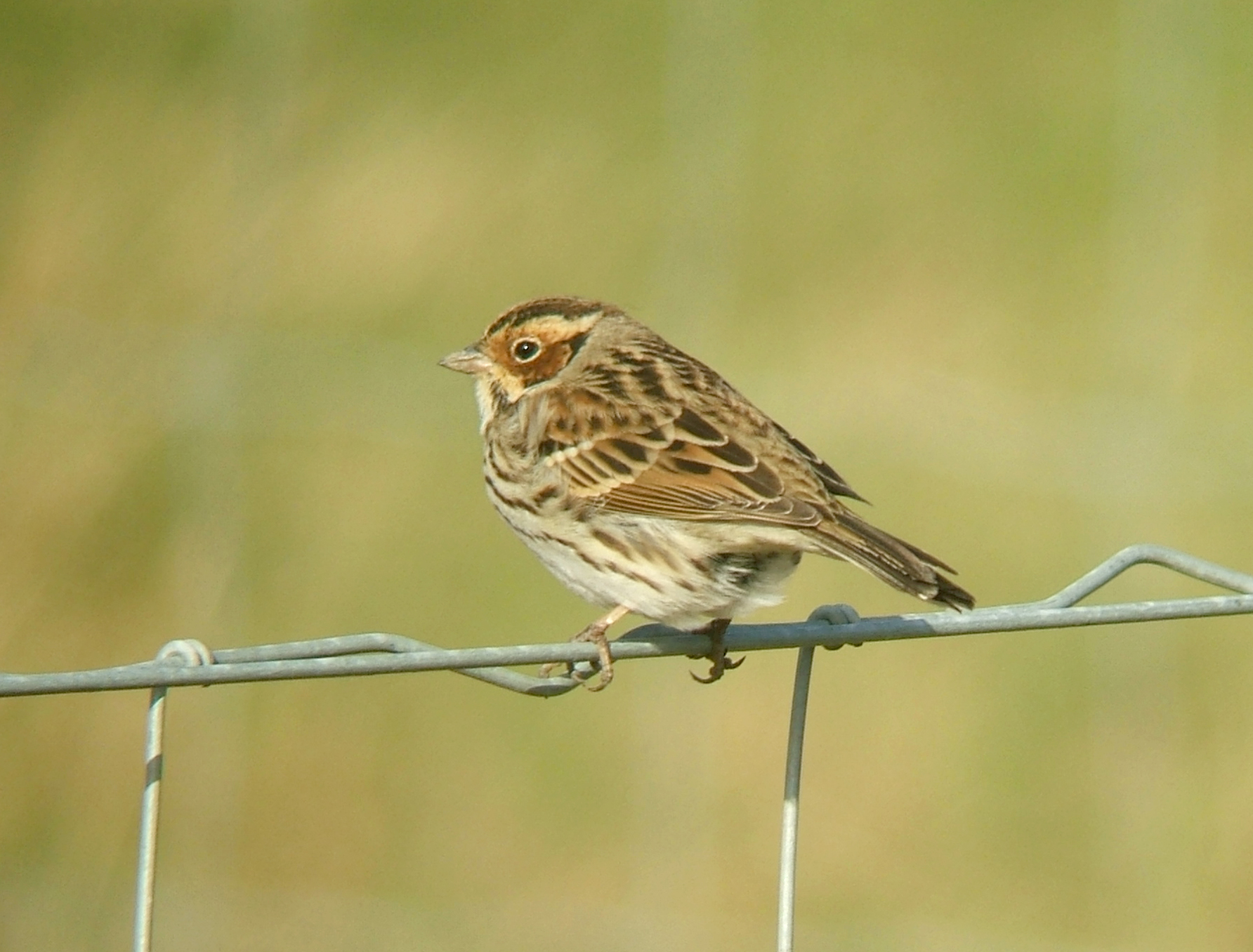 Little Bunting Emberiza pusilla, Harrington Burn, Shiney Row, Durham, UK